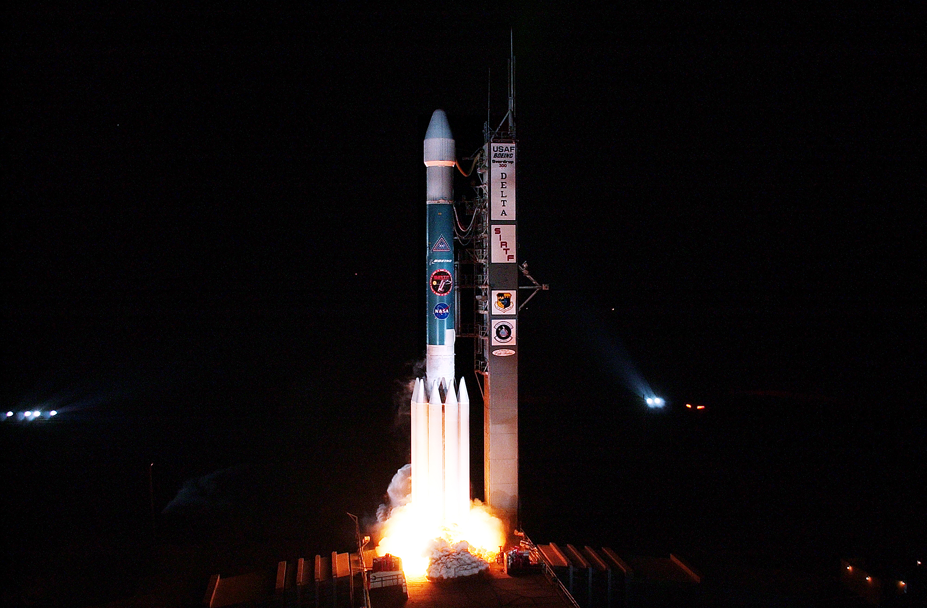 NASA's Space Infrared Telescope Facility (SIRTF) lifts off from Launch Pad 17-B, Cape Canaveral Air Force Station, on Aug. 25 at 1:35:39 a.m. EDT. SIRTF will obtain images and spectra by detecting the infrared energy, or heat, radiated by objects in space. Consisting of a 0.85-meter telescope and three cryogenically cooled science instruments, SIRTF will be the largest infrared telescope ever launched into space. It is the fourth and final element in NASA’s family of orbiting “Great Observatories.” Its highly sensitive instruments will give a unique view of the Universe and peer into regions of space that are hidden from optical telescopes.